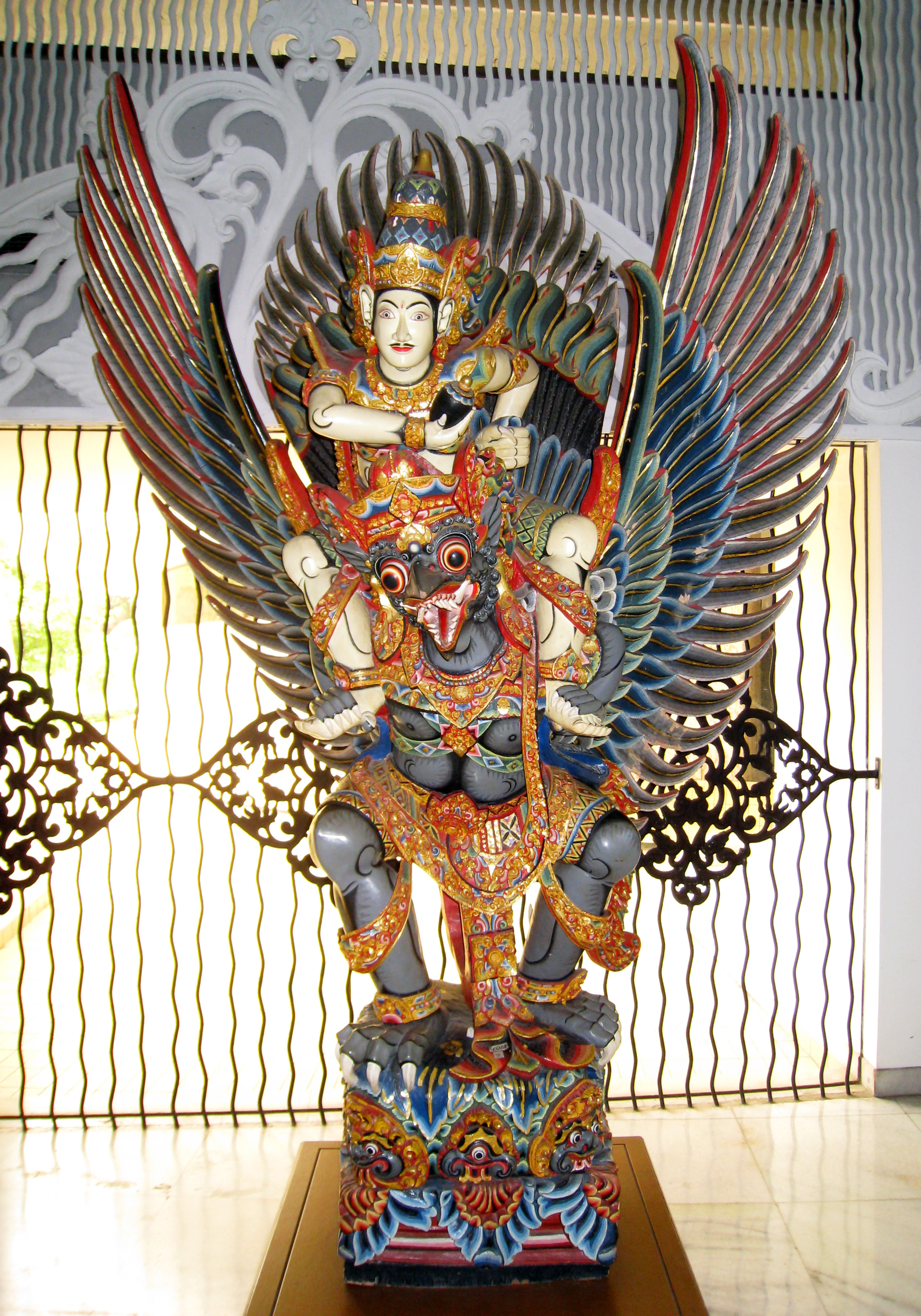 The Balinese wooden statue of Wishnu riding Garuda as his vehicle. Purna Bhakti Pertiwi Museum, Taman Mini Indonesia Indah, Jakarta.